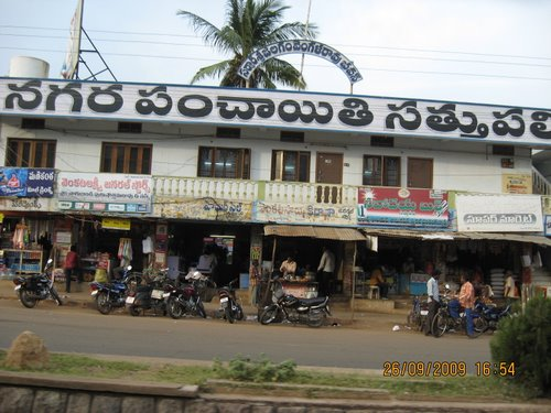 Sathupally Municipal corporation office